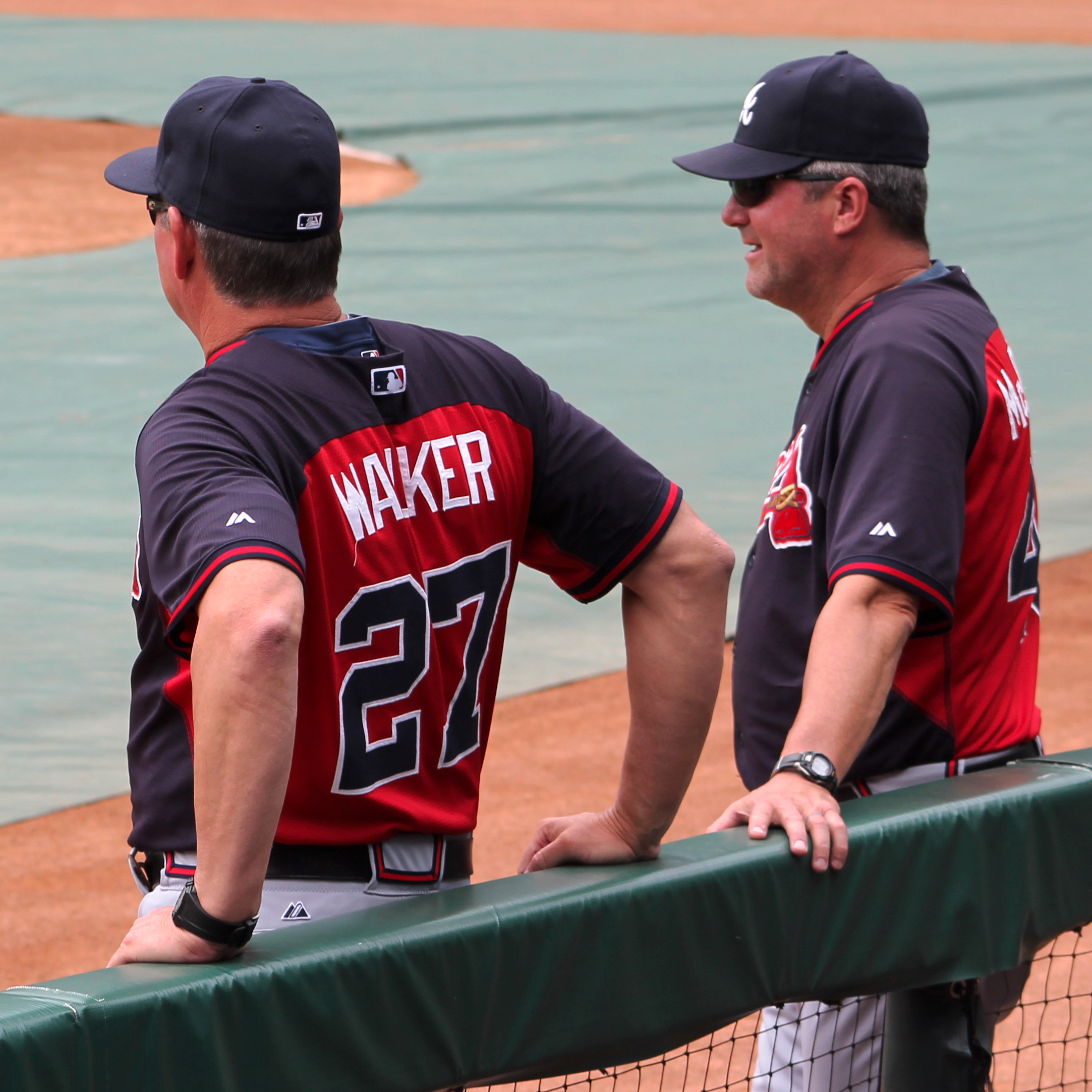 Professional baseball coaches Greg Walker and Roger McDowell before a 2014 Braves game in Texas.